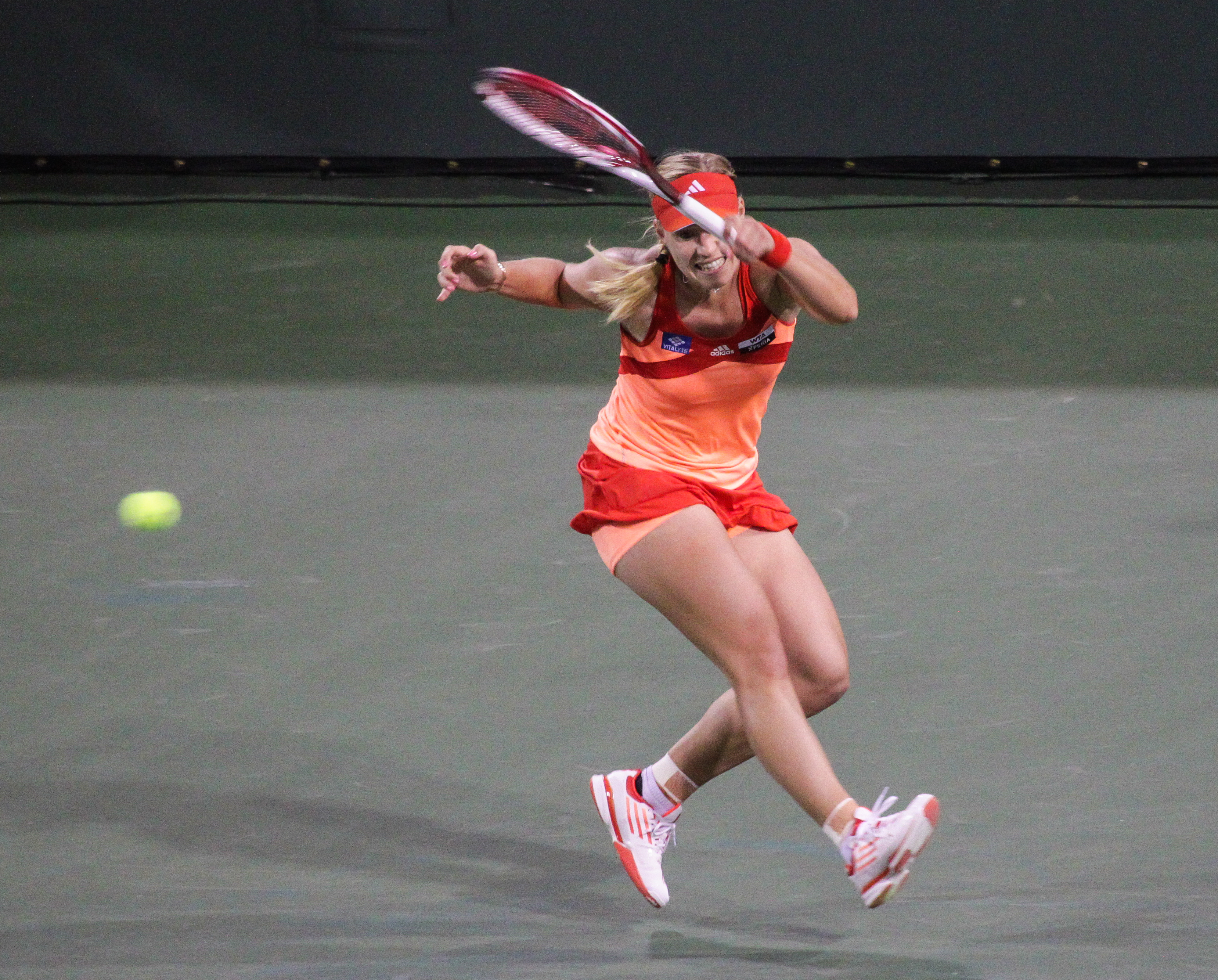 Angelique Kerber at the 2012 BNP Paribas Open